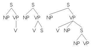 Syntax tree